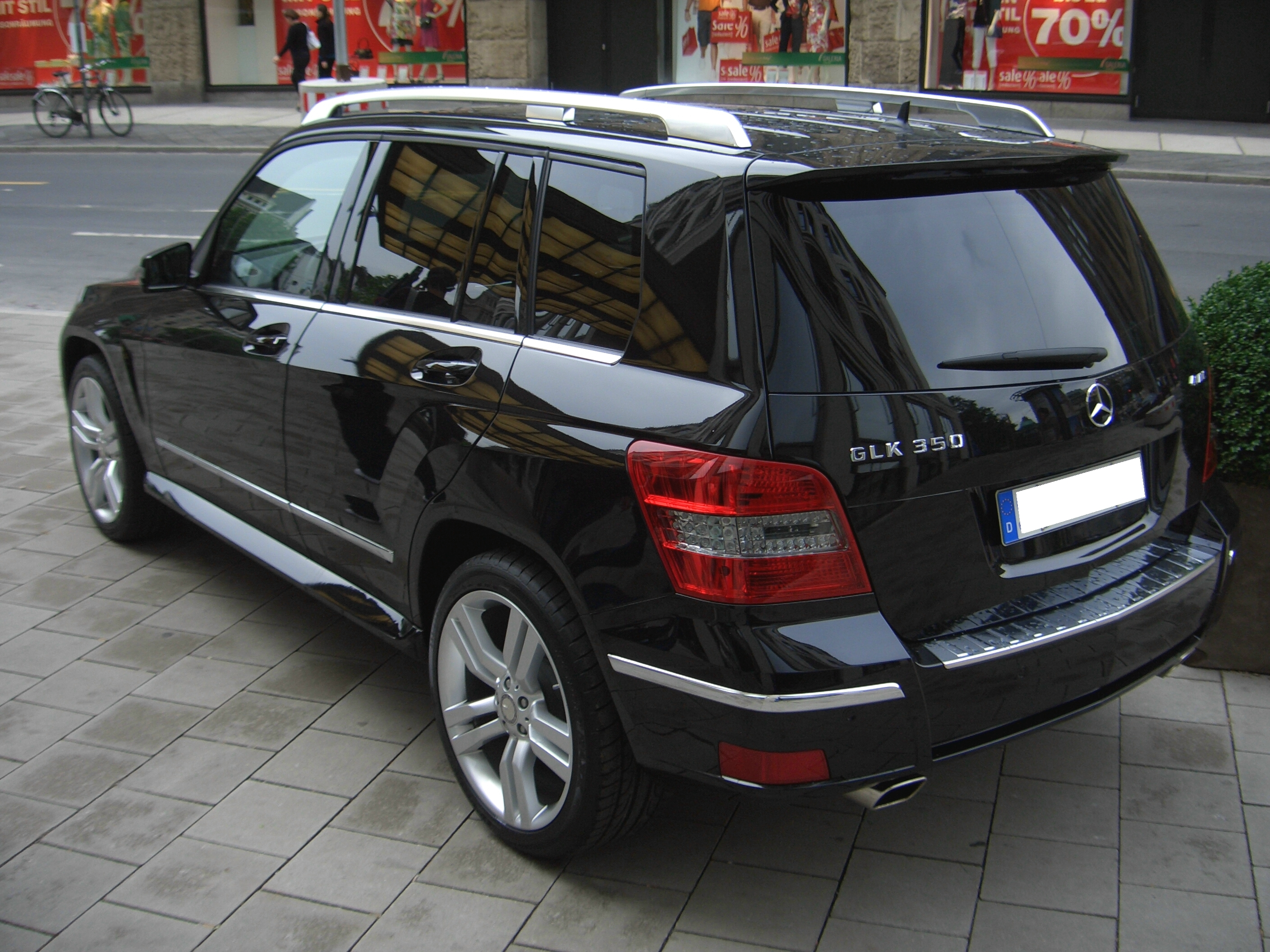 Mercedes-Benz GLK 350 4matic (from 2008), seen in Duesseldorf, Germany